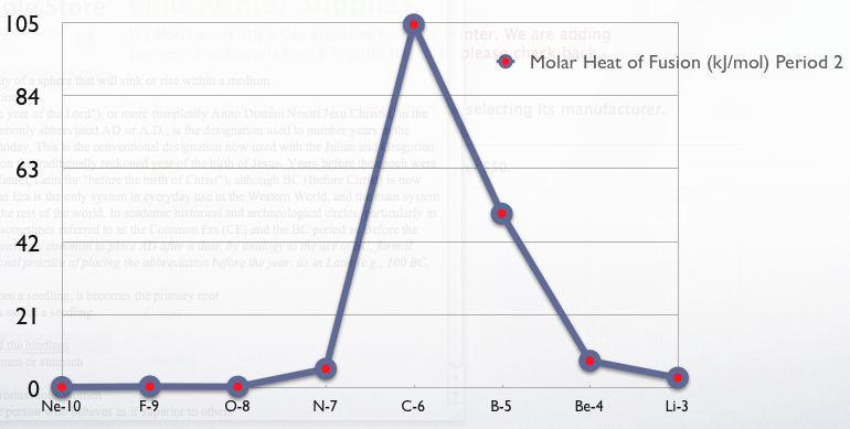 Molar heat of fusion period 2